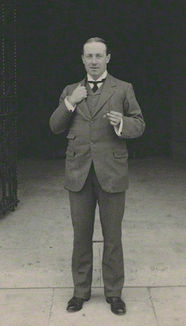 Photography of Stanley Baldwin, future Prime Minister of Great Britain